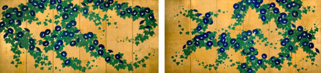 Pair of screens with morning glory